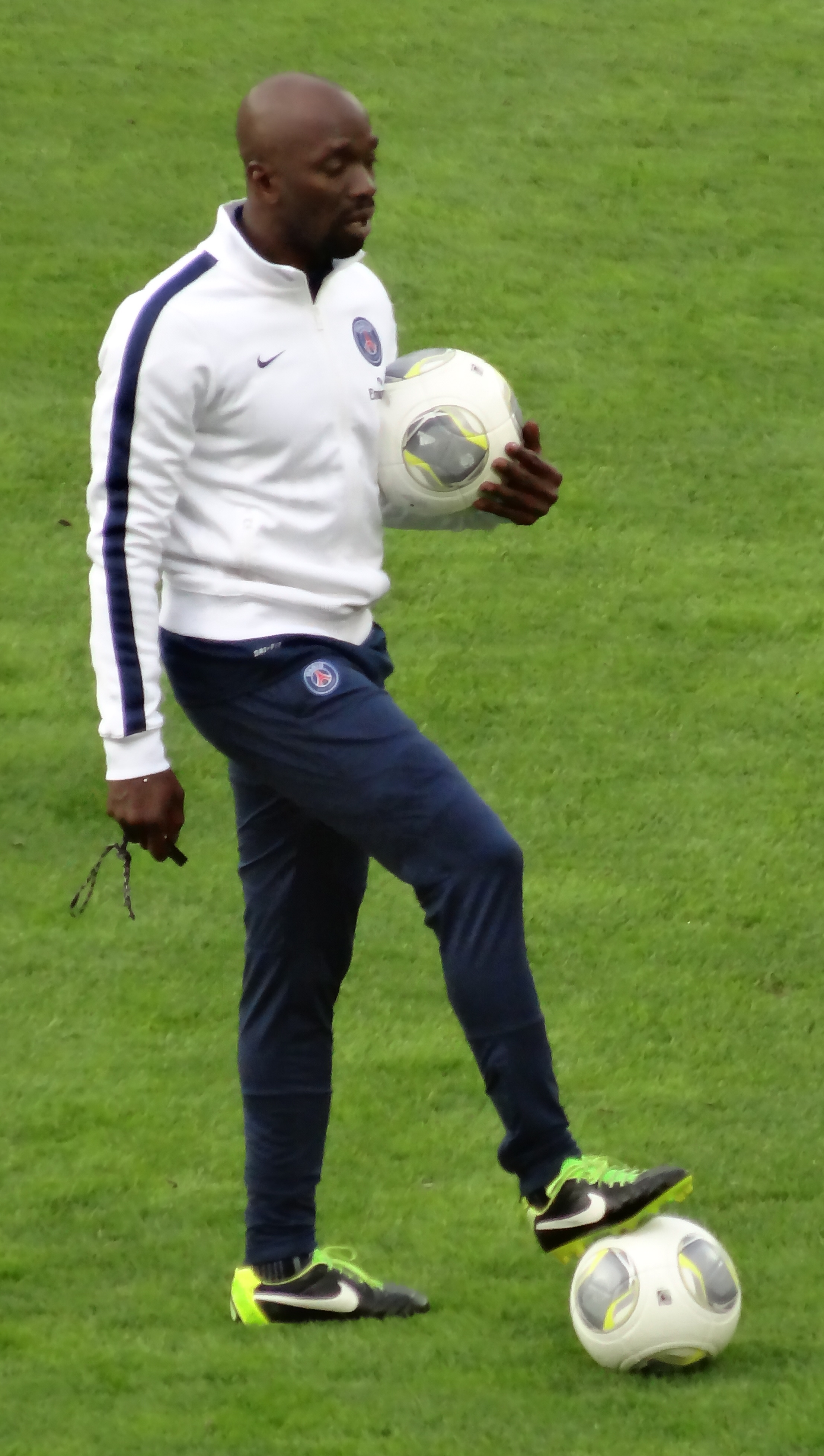 Claude Makelele, staff PSG